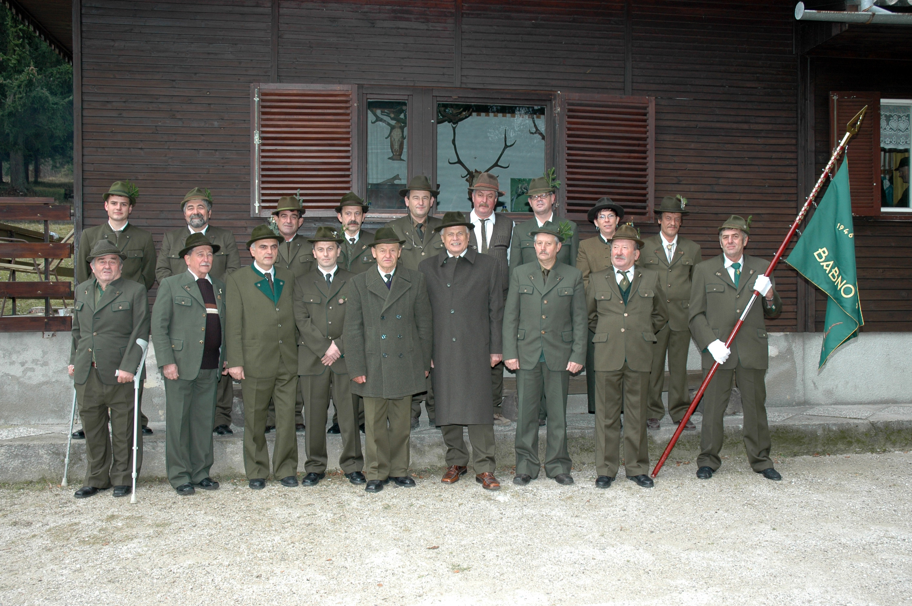 Members of the Babno Polje hunters' society